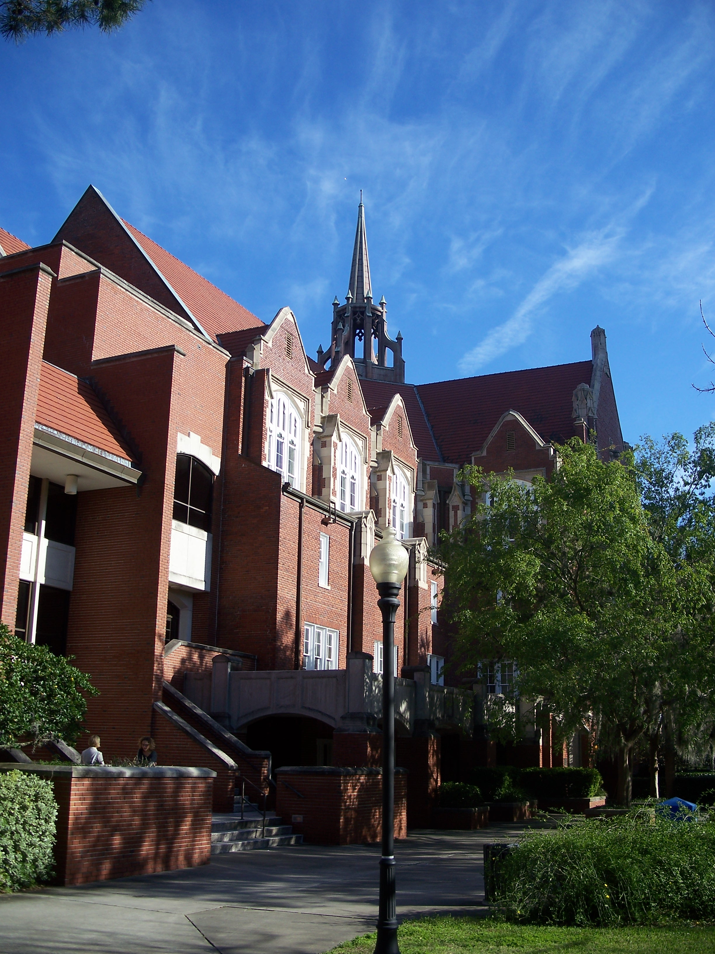 University Auditorium, part of the University of Florida Campus Historic District